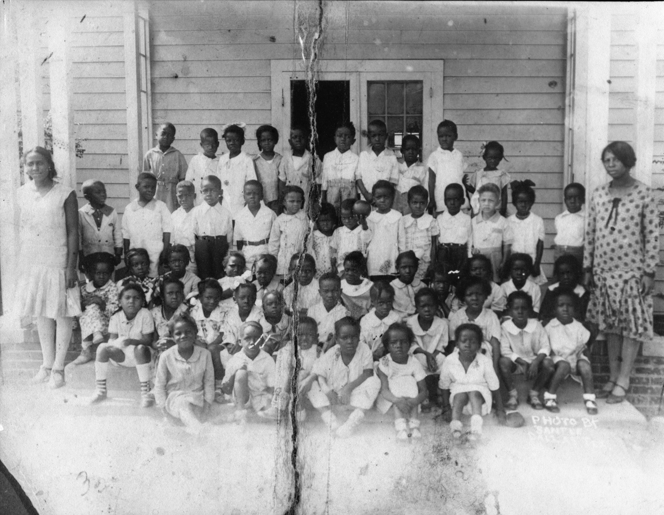 Emerson Emory in kindergarten in Dallas. Notes on back indicate "3rd row, 3rd from right".